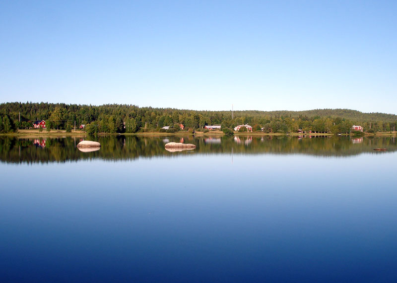 Lake Kattisavan in Lycksele Municipality, Swedish Lapland, viewed from road E12. The village Kattisavan in the background.